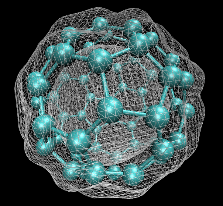 Bucky ball with isosurface of ground state electron density (calculated with DFT, the CPMD code). File was rendered using VMD.